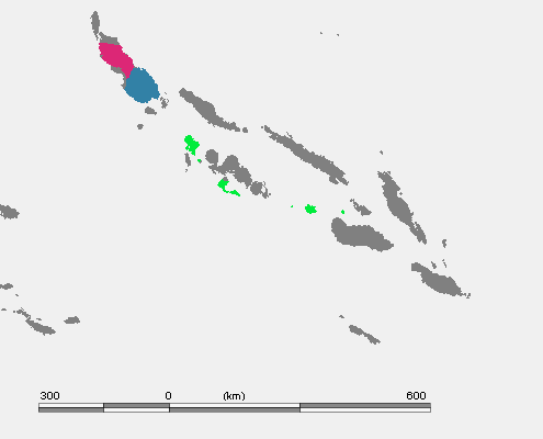 Language families of the Solomon Islands. Red: North Bougainville. Blue: South Bougainville. Green: Central Solomons. Grey: Austronesian.